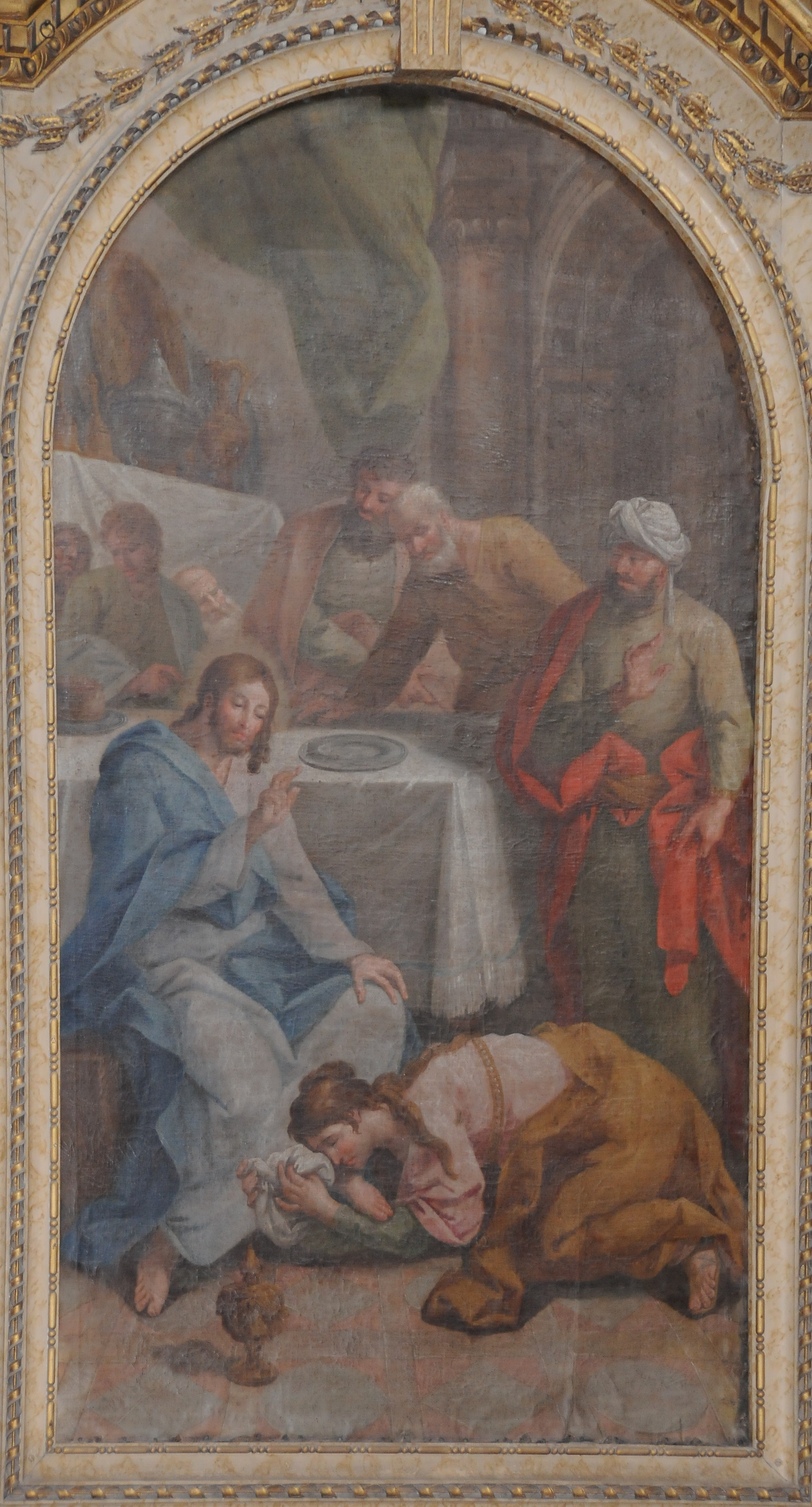 Painting in Bom Jesus church, Braga, Portugal